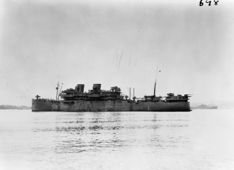 Llangibby Castle Stationary, coastal waters.